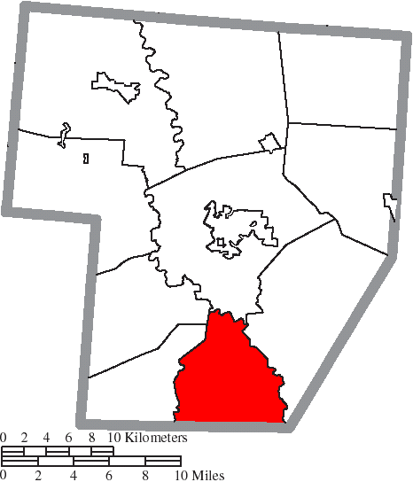 Map of the municipal and township boundaries of Fayette County, Ohio, United States, as of the 2000 census, with the location of Perry Township highlighted. Township borders are shown only in unincorporated areas in order to differentiate incorporated and unincorporated areas more clearly.